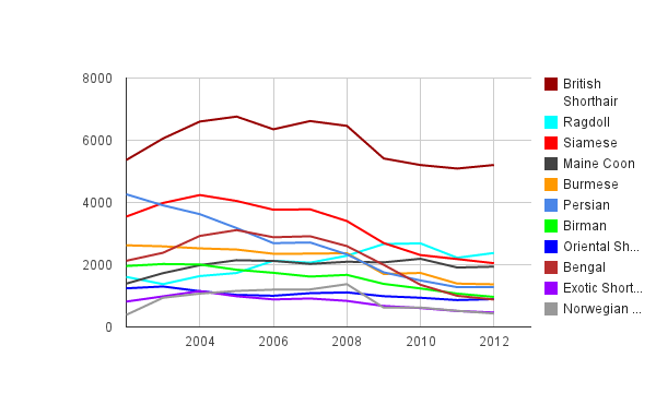 Governing Council of Cat Fancy breed registration data between 2002 to 2012 for the top 11 breeds of 2012.